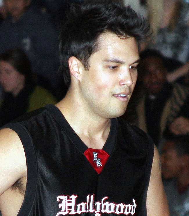 Close-up of Michael Copon in competition with the Hollywood Knights celebrity basketball team in Claremont, California on January 30, 2010